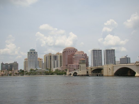 Photo of downtown West Palm Beach, Florida, with the Royal Park Bridge in the foreground.